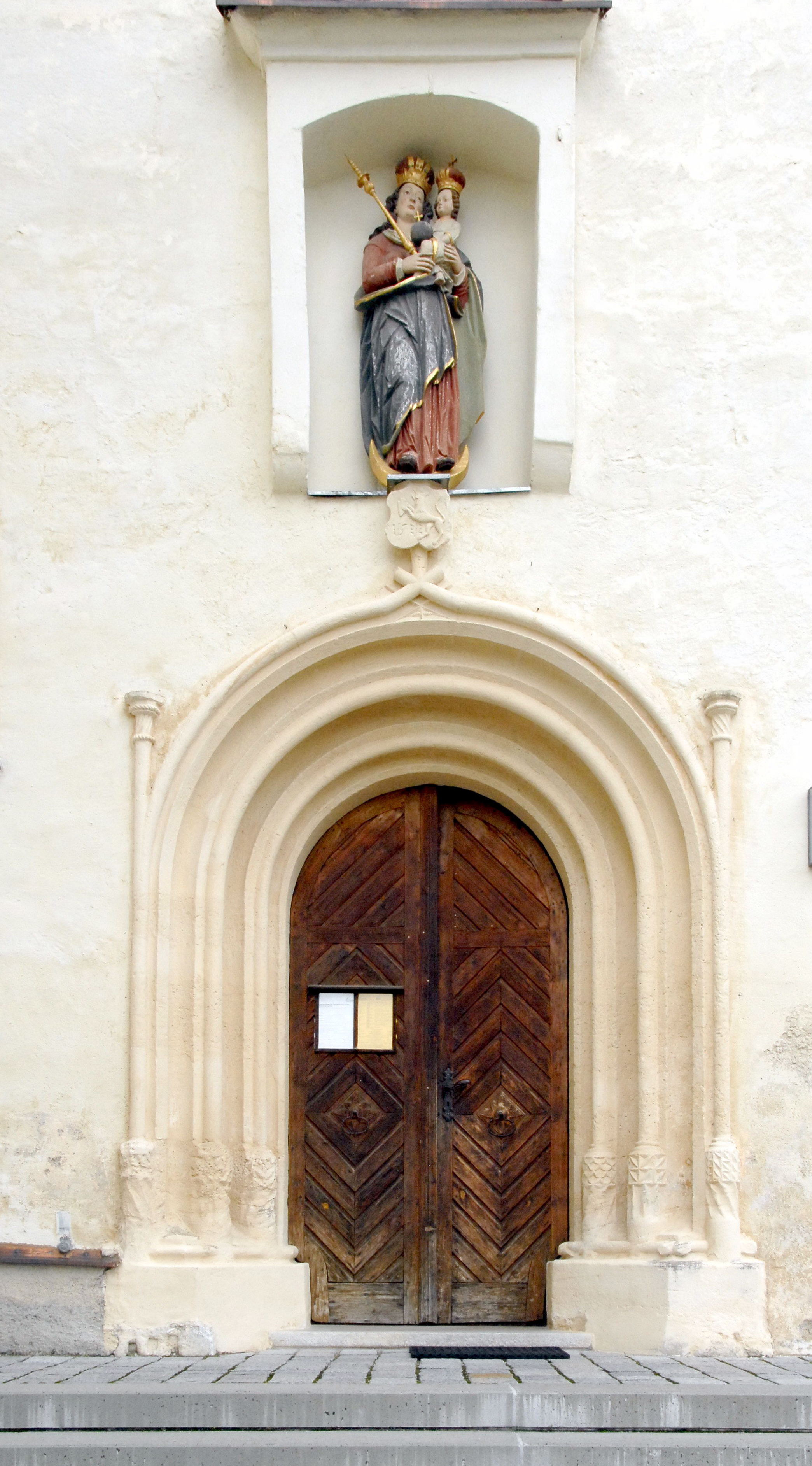 Late Gothic western portal with baroque statue of Madonna on the crescent at a overdoor niche of the Augustinian Canons' monastery church the Assumption of Mary on Kirchplatz #1, market town Eberndorf, district Völkermarkt, Carinthia, Austria, European Union